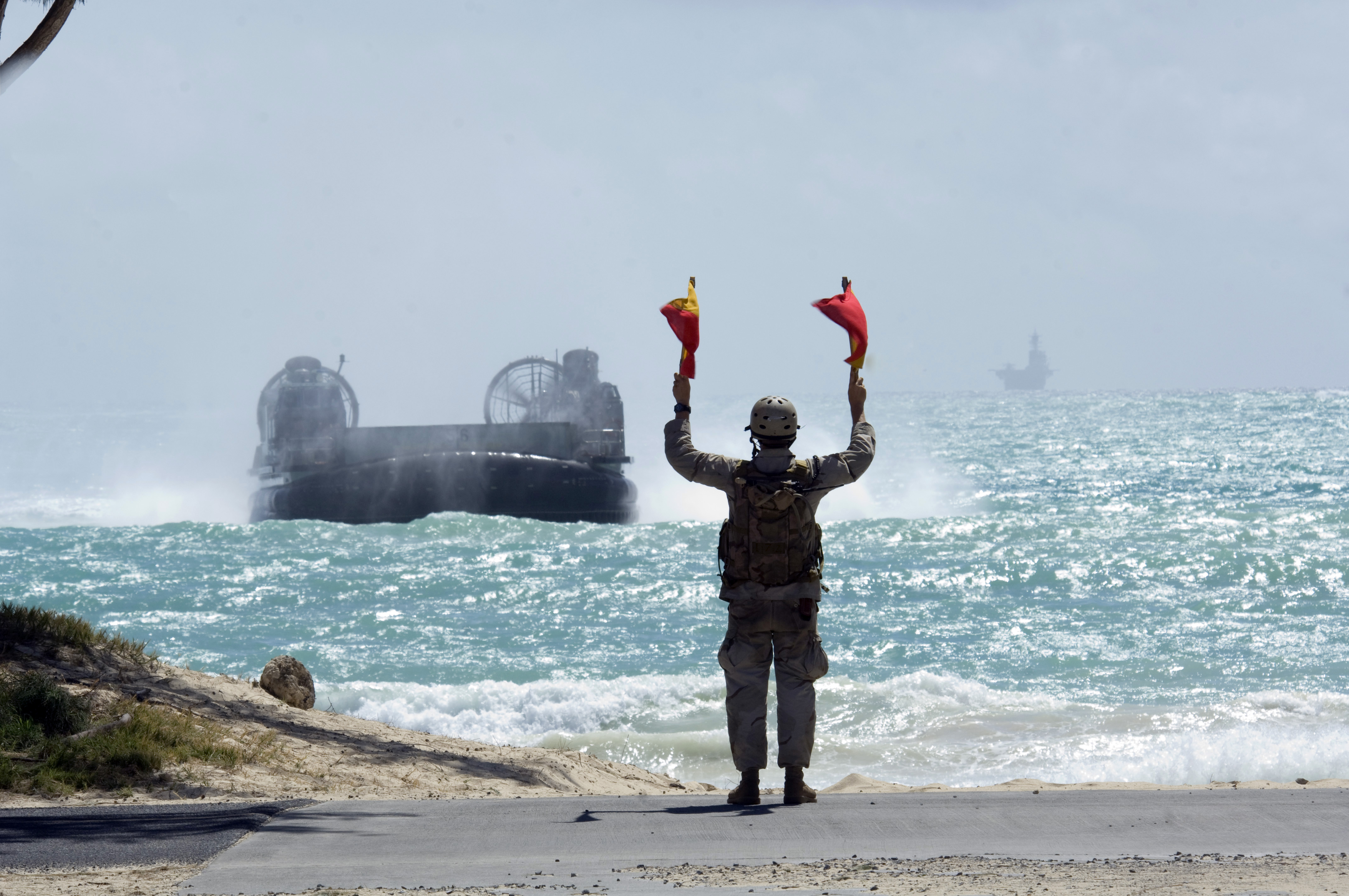 BELLOWS AIR FORCE STATION, Hawaii (July 22, 2008) Boatswain's Mate 2nd Class Derrick Riley, assigned to Beach Master Unit (BMU) 1, uses signal flags to guide a landing craft air cushion assigned to Assault Craft Unit (ACU) 5 from the amphibious assault ship USS Bonhomme Richard (LHD 6) onto the beach at Bellows Air Force Station to transport equipment used by Navy and Marines during Rim of the Pacific (RIMPAC) 2008. RIMPAC is the world's largest multinational exercise and is scheduled biennially by the U.S. Pacific Fleet. Participants include the United States, Australia, Canada, Chile, Japan, Netherlands, Peru, Republic of Korea, Singapore, and the United Kingdom. (U.S. Navy photo by Mass Communication Specialist 1st Class Mark Rankin/Released)